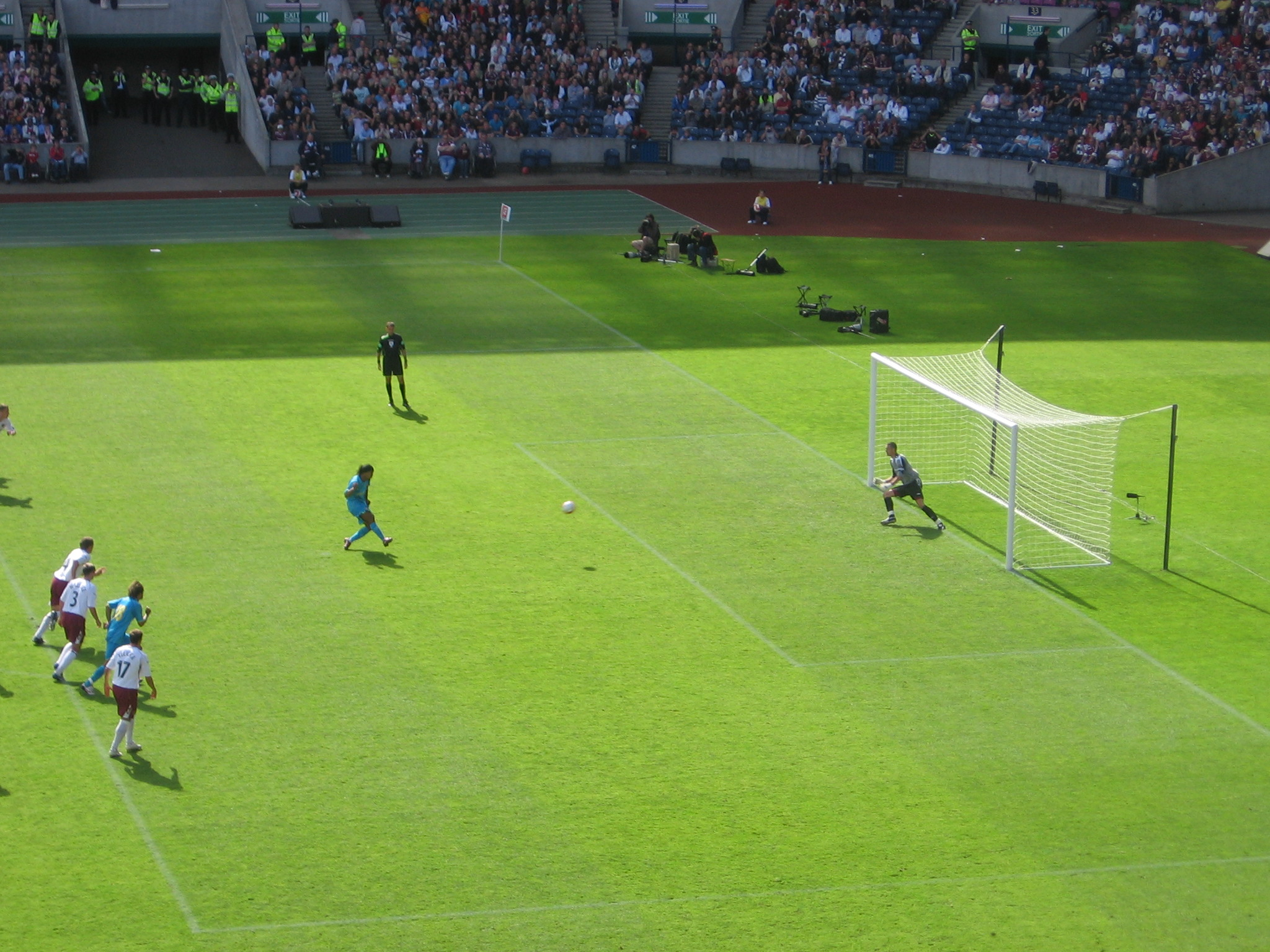 Ronaldinho xuta un penal al partit Heart of Midlothian-FC BarcelonaIMG_0269[1]